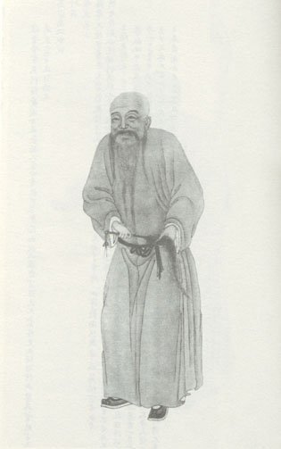 CHENG Jinfang, scholar of the Qing Dynasty.